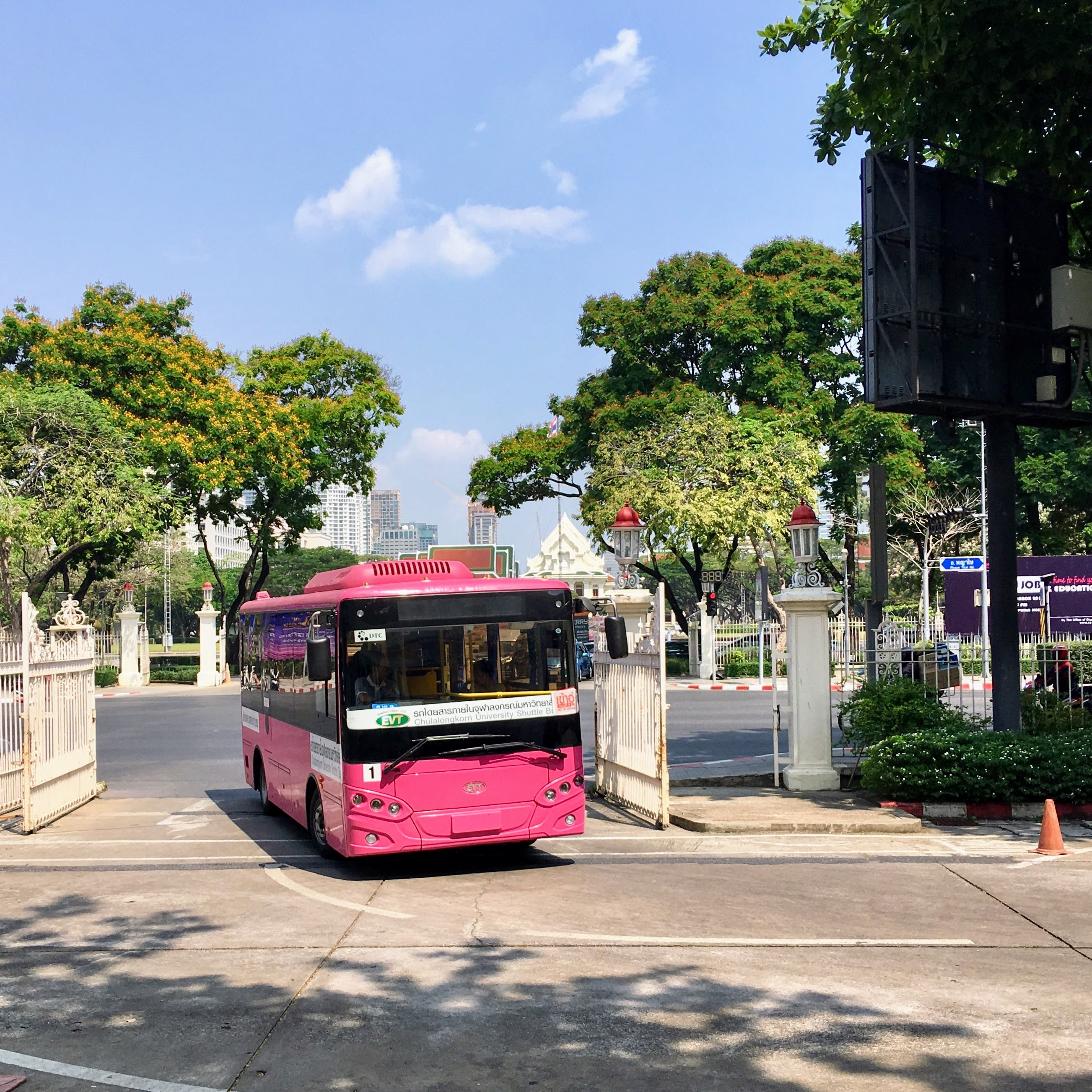 The new version of CU shuttle bus was fully launched in the end of February, 2018.